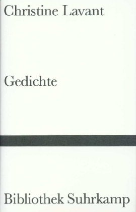 Book cover of Christine Lavant "Gedichte" 1987